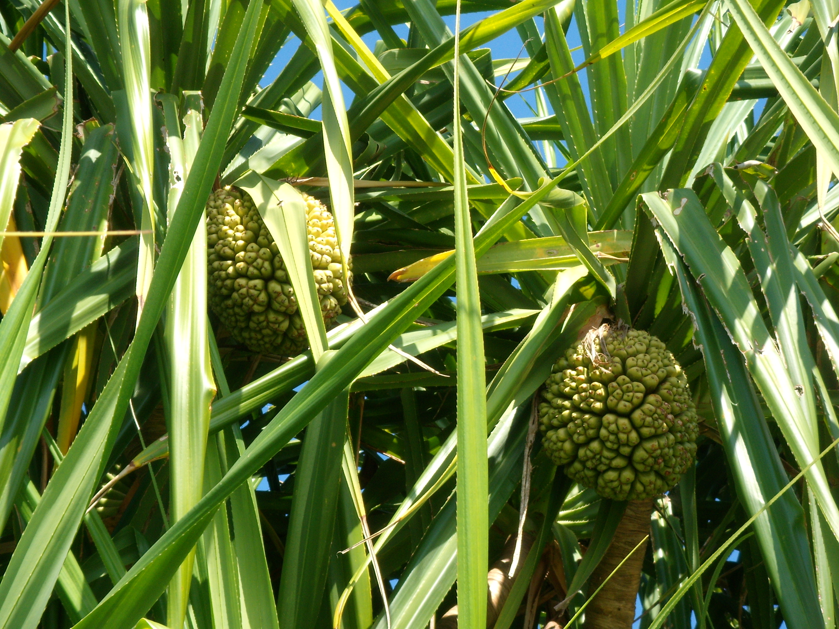 kewda (Pandanus odoratissimus nom. illeg.)